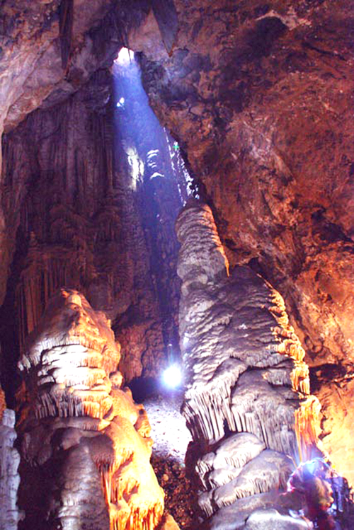 qalacy cave